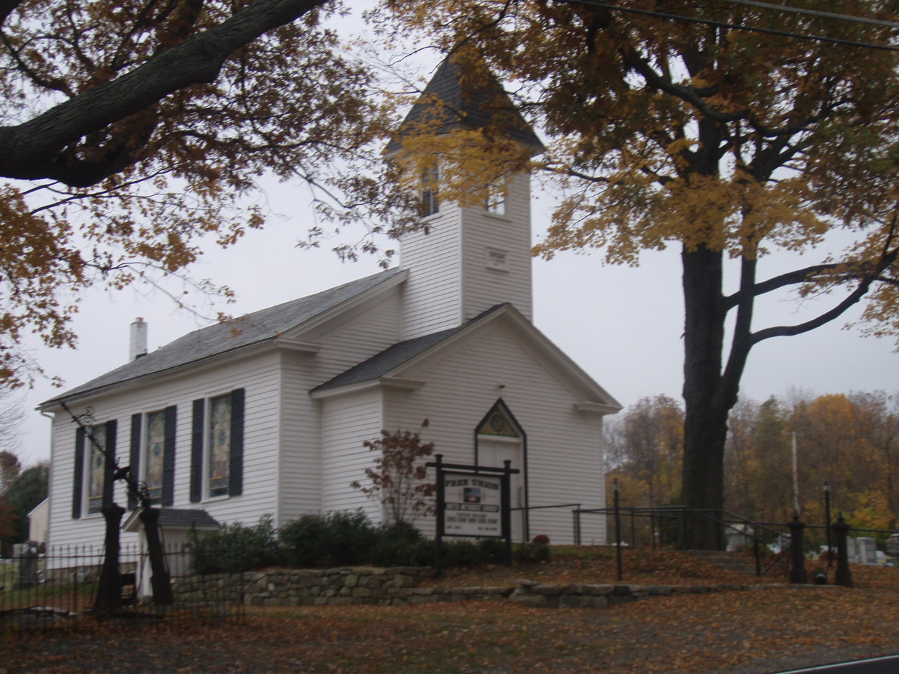 The Free Union Church on Marble Hill Road in Liberty Township.